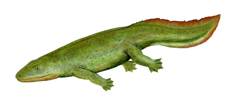 Hynerpeton bassetti, a basal tetrapoda from the Late Devonian of North America, pencil drawing